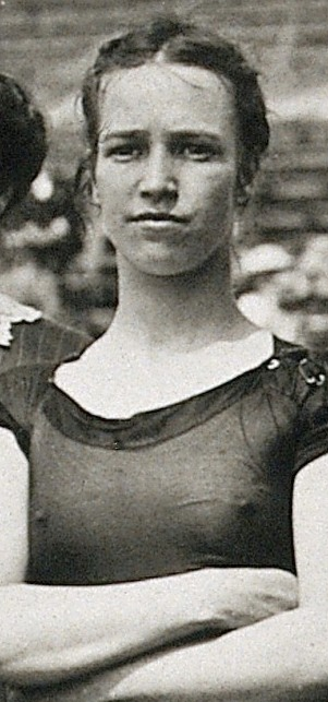 The victorious English 400 m. women's relay swimming team at the Stockholm Olympic Games. Postcard, 1912: Belle Moore, Jennie Fletcher, Annie Speirs, Irene Steer. ID: [1] [2]